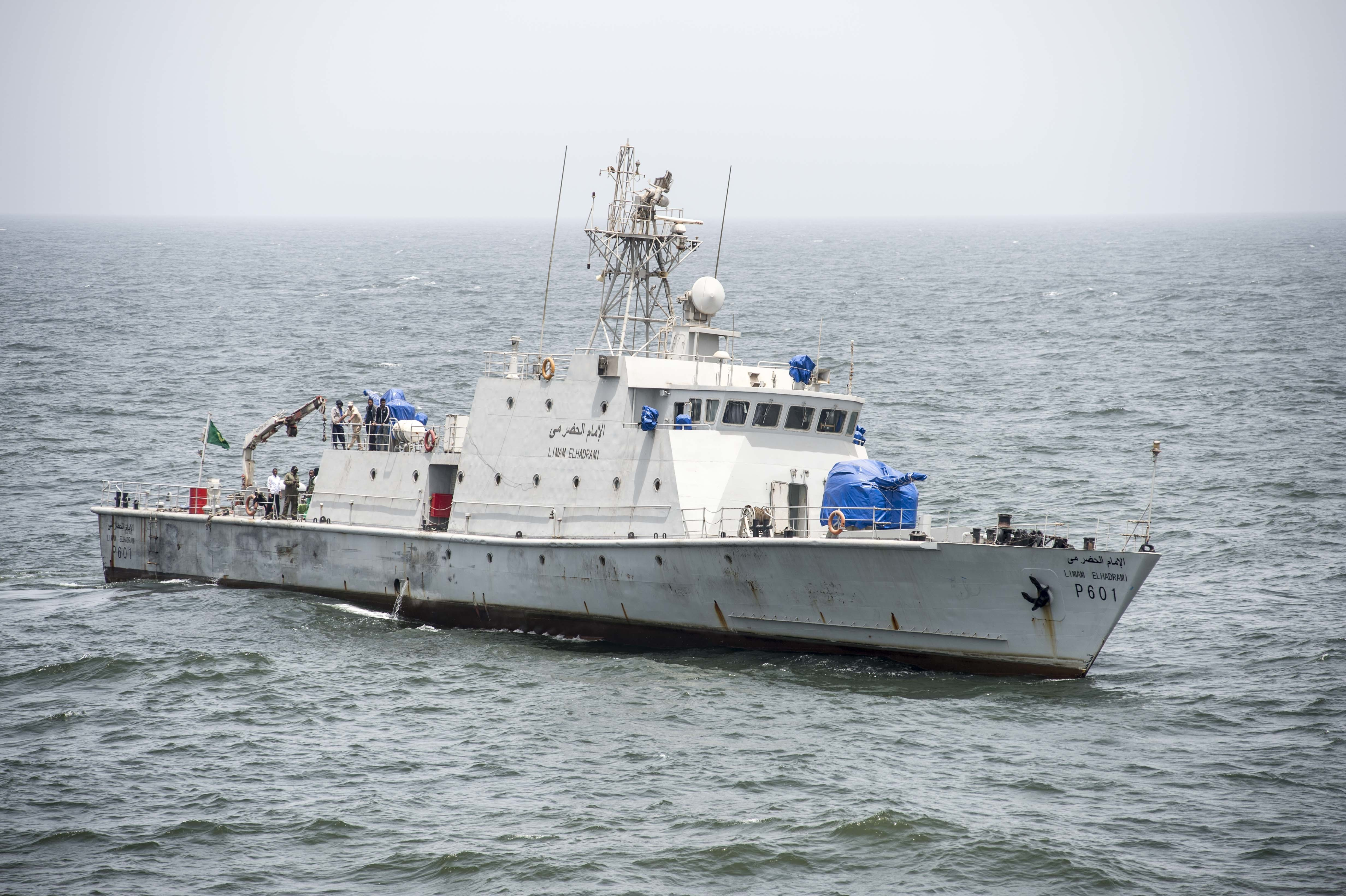 150422-N-EC444-067 ATLANTIC OCEAN The Mauritanian naval vessel Limam Elhadrami patrols the Atlantic Ocean in support of Exercise Saharan Express 2015, April 22. Saharan Express is a U.S. Africa Command-sponsored multinational maritime exercise designed to increase maritime safety and security of the waters of West Africa.